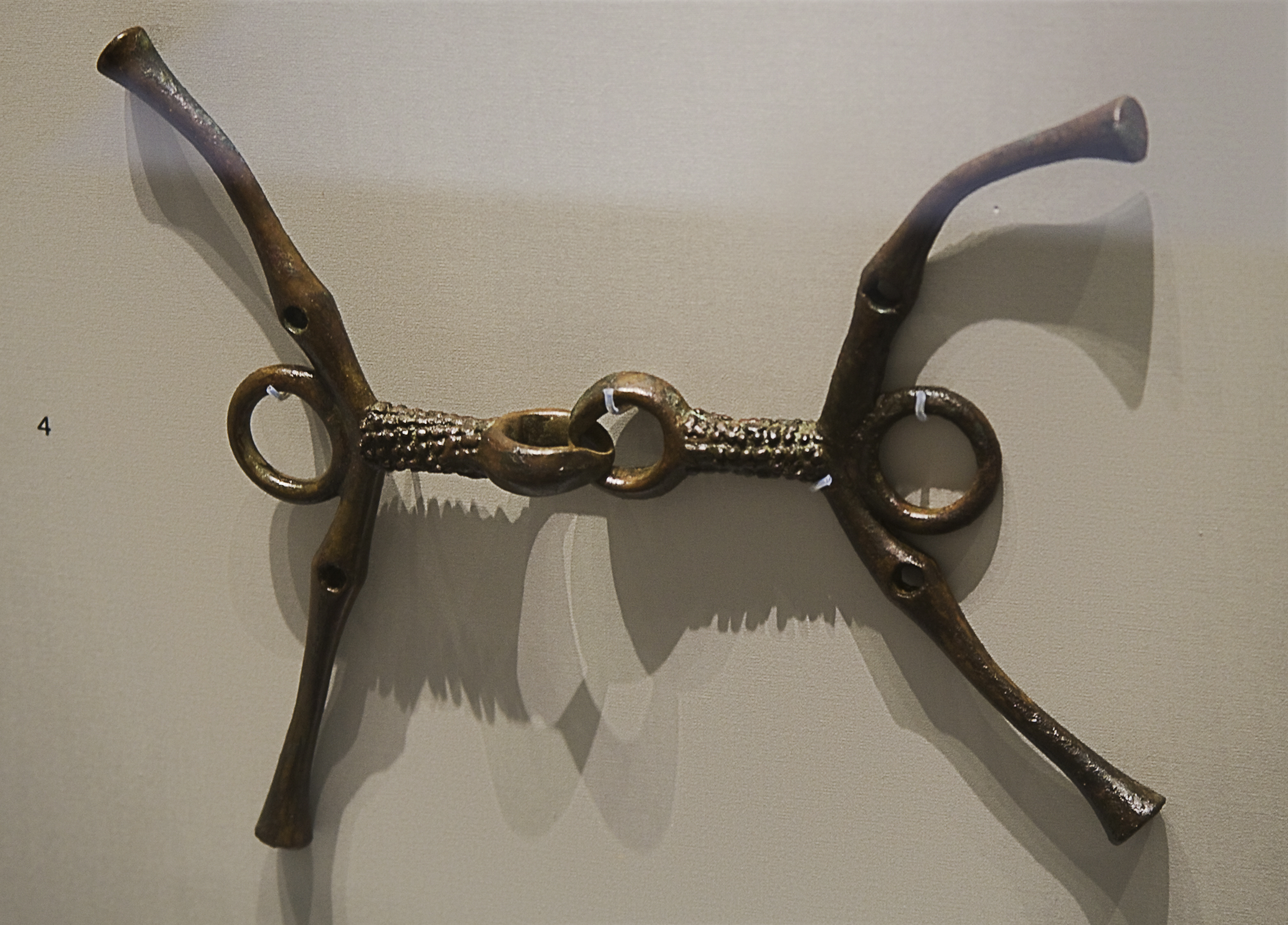 A bronze snaffle bit in the British Museum. Tag reads: "Horse riding. This horse-bit has large bar cheek-pieces for attaching the bridle and holes for the straps. The knobbed snaffle must have been uncomfortable for the horse but enabled the rider to control it with the slightest movement of the reins. There are considerable signs of wear at the junction of the two rings in the centre, indicating that this object had been extensively used before it was buried. Mid 6th-4th century BC, Deve Huyuk, north Syria. 108759" See BM database entry for more details.